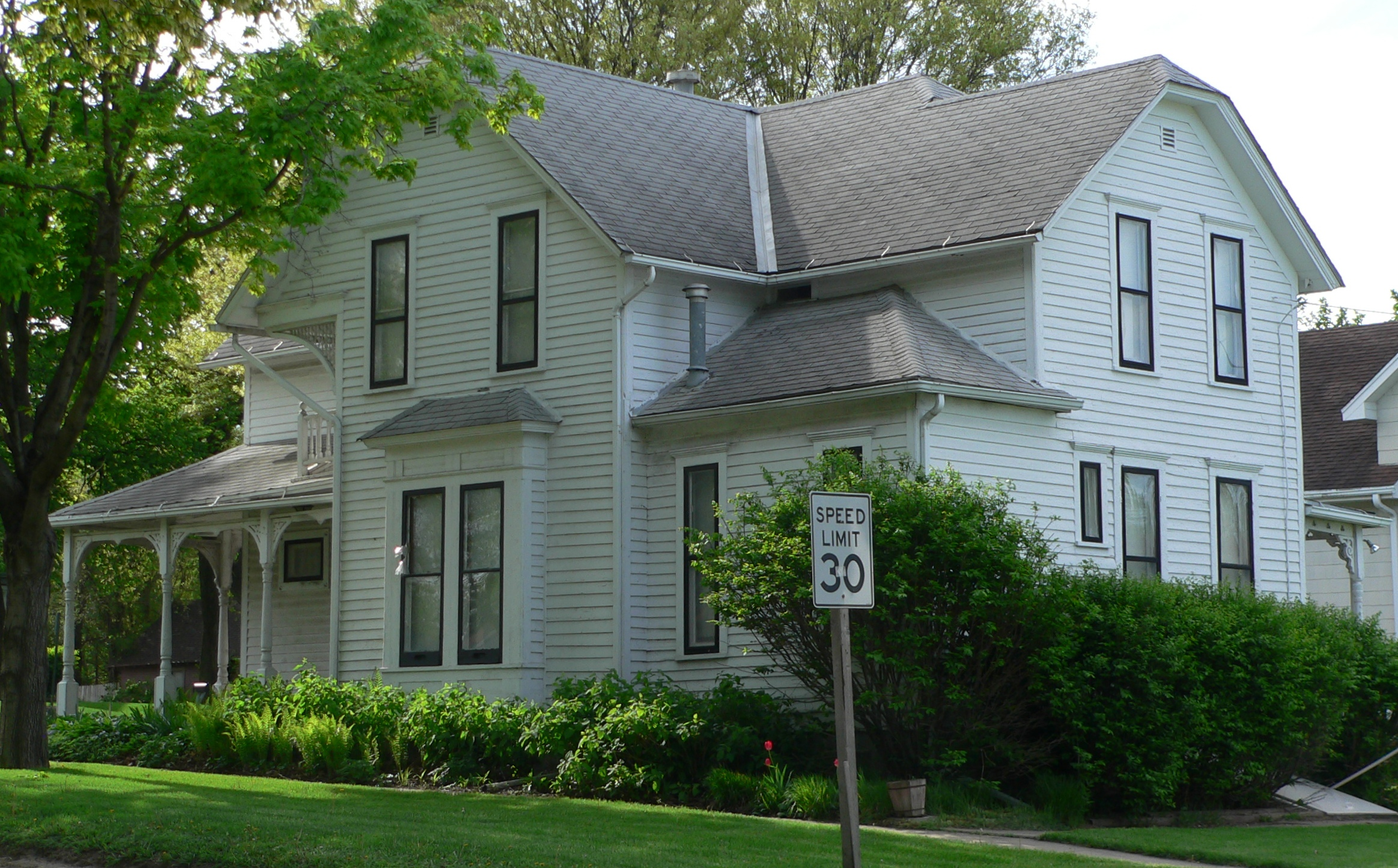 Howard Hanson House at 1163 Linden in Wahoo, Nebraska; seen from the northwest. The Queen Anne house was built in 1888. It is listed in the National Register of Historic Places for its architecture, and as the boyhood home of musician Howard Hanson. It is now operated as a museum.